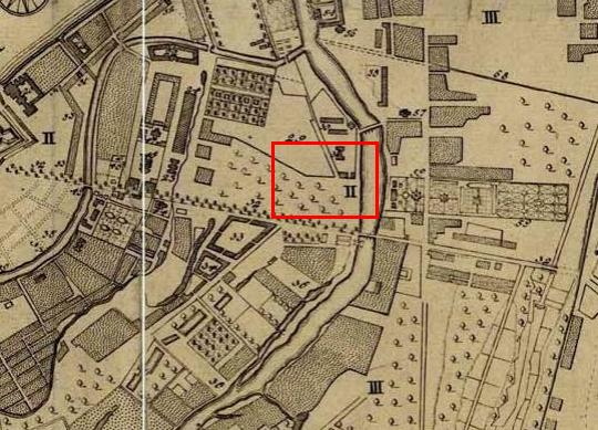 Location of territory of future Manejnaya square on the 1737 year map